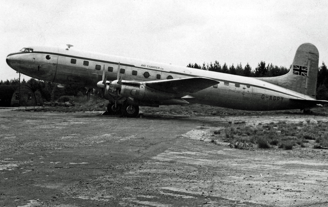 Avro 689 Tudor 2 of Air Charter Ltd at its London Stansted base